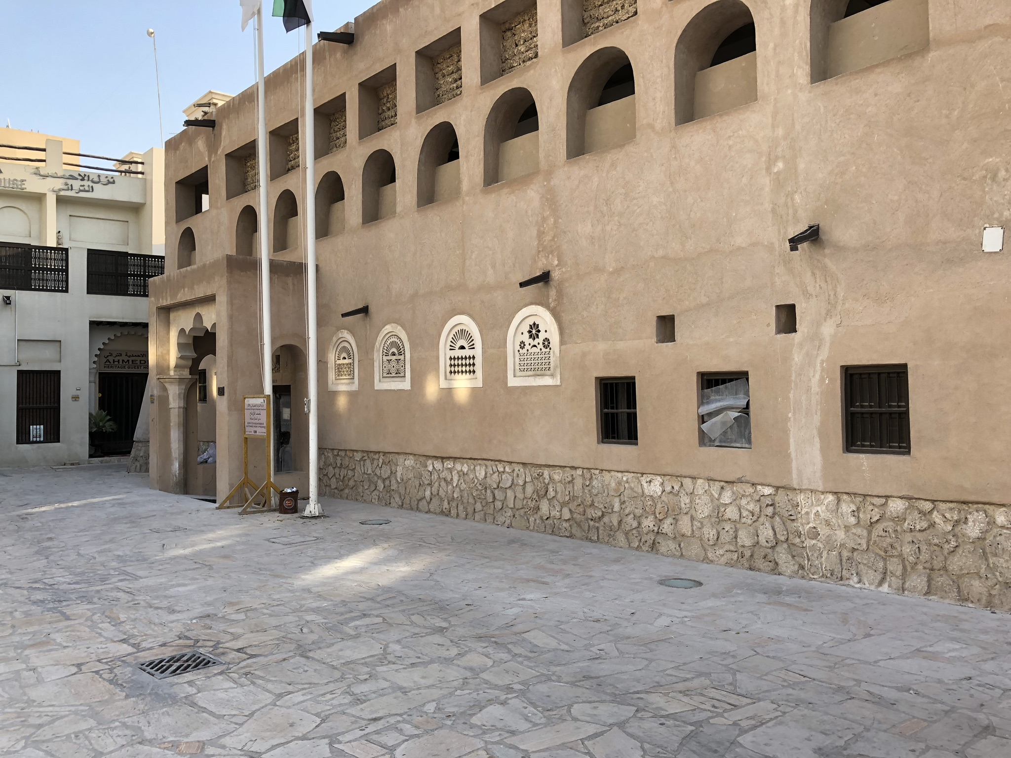 Al Ahmadiya School in Al Ras, Dubai. This is a monument in the United Arab Emirates identified by the ID D-5